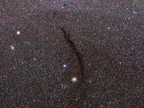 The Dark Doodad Nebula, with globular cluster NGC 4372 at its southern end. Image created with 20 × 90 second (total 30 minutes) sub-exposures taken with a Canon EOS 5D Mark II and 135 mm f/2L lens at f/4 and ISO 3200 on an Astrotrac equatorial mount, stacked using Deep Sky Stacker and finished using Adobe Photoshop CS5.